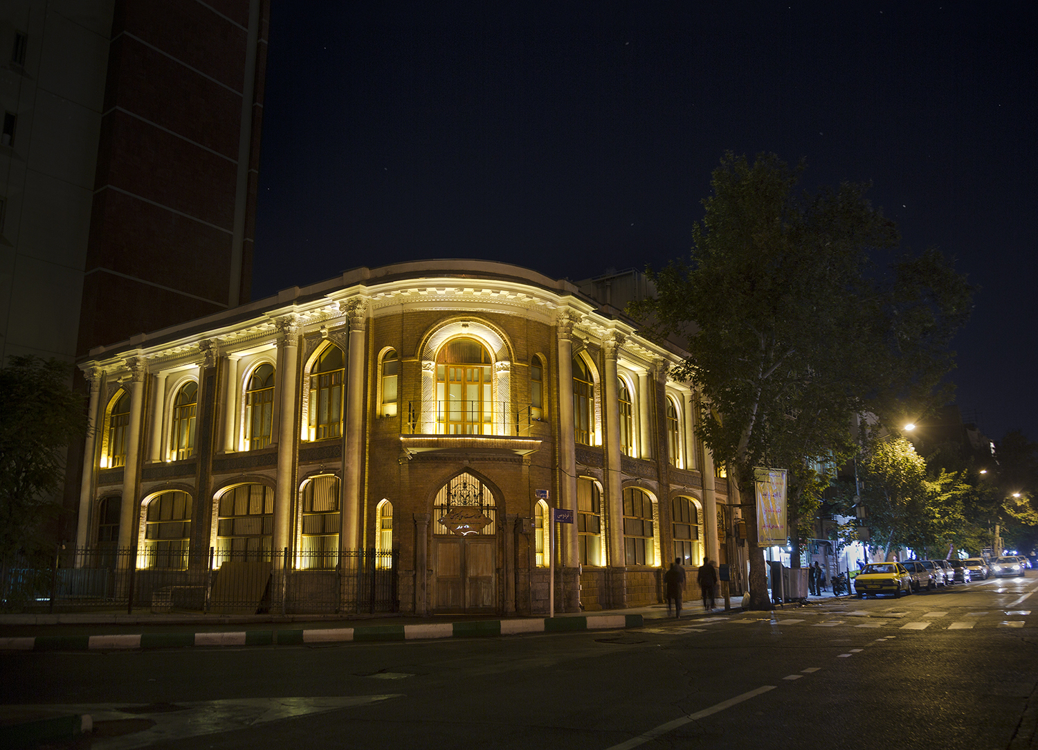 Ali Akbar Sana'ti Museum of Tehran